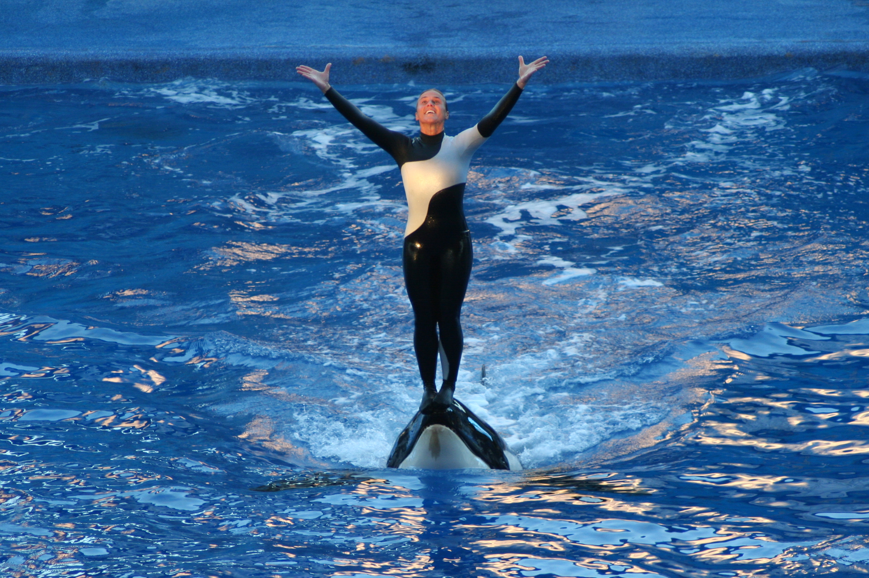 Dawn Brancheau at the Riders of the Storm show, at SeaWorld, Orlando, Florida, in 2006. She would be killed by the killer whale Tilikum in 2010.